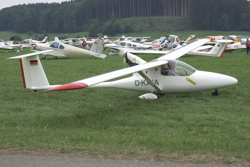 Technoflug Piccolo D-KAIA Tannkosh 2007